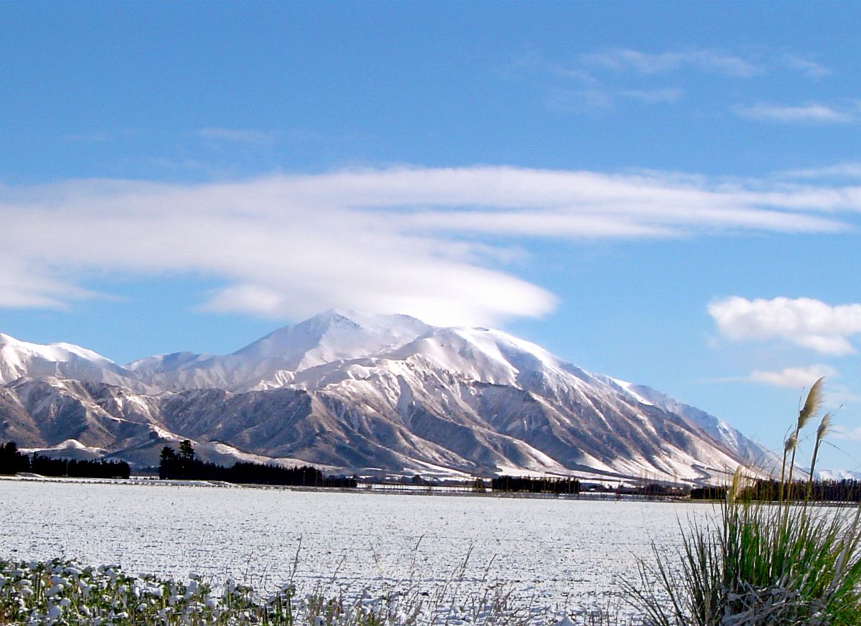 Photograph of Mount Hutt, Mid Canterbury, New Zealand, during winter. Photographed by Richard Girvan.